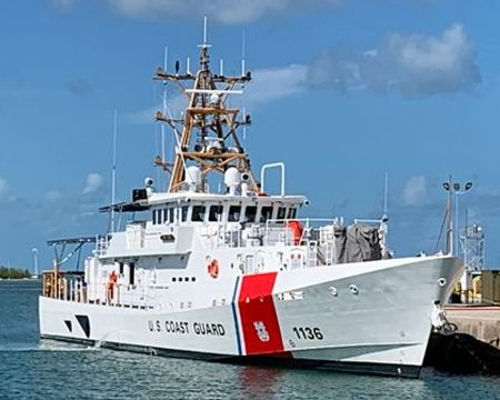 The 36th fast response cutter (FRC), Daniel Tarr, was delivered to the Coast Guard in Key West, Florida, Nov. 7, 2019. It is the first of three planned FRCs to be stationed in Galveston, Texas. U.S. Coast Guard photo by Mark Schwender.